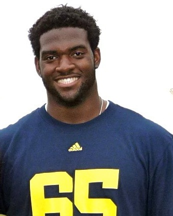 Photograph of Patrick Omameh, University of Michigan football coach, taken at the 2011 Women's Football Academy